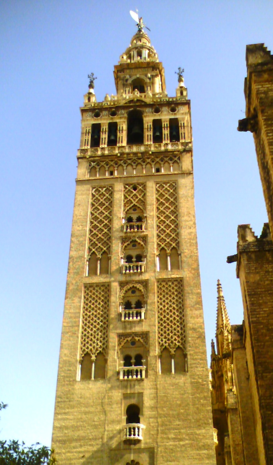 The Giralda, Seville, as seen from Plaza Virgen de los Reyes. Photo by E Asterion u talking to me? 22:18, 24 July 2006 (UTC)